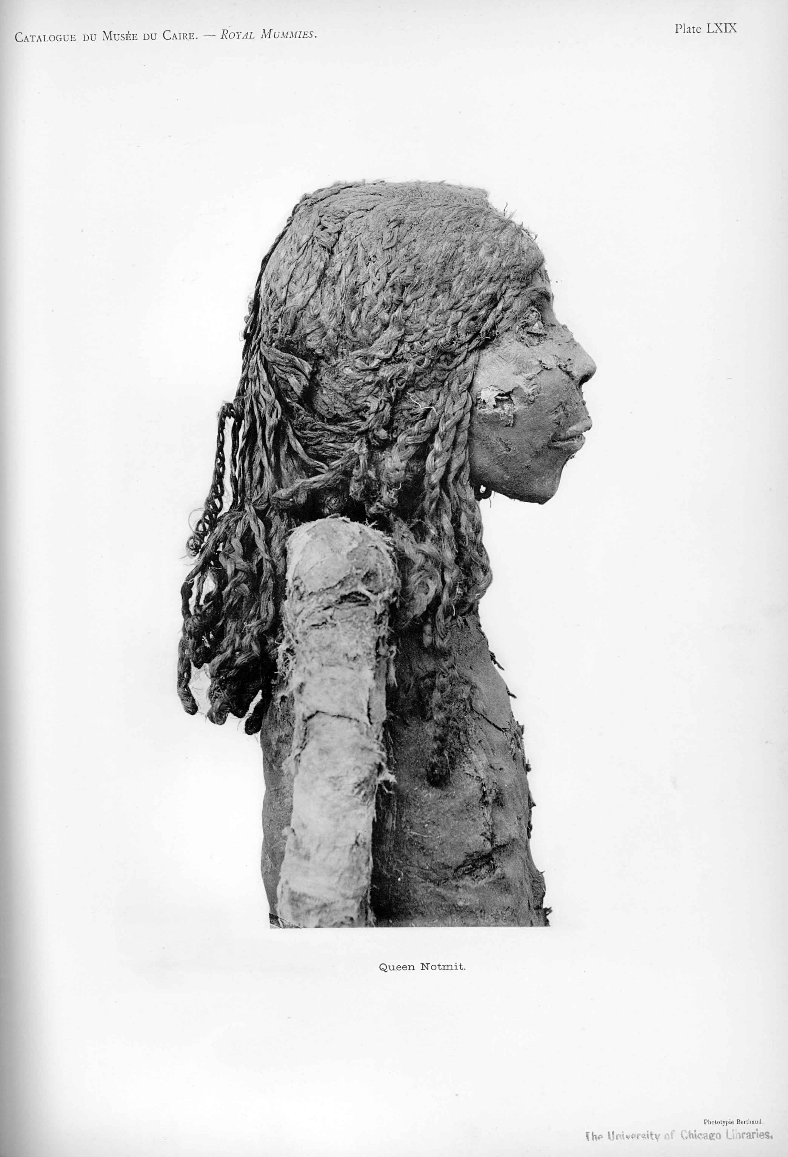 Mummy of Nodjmet